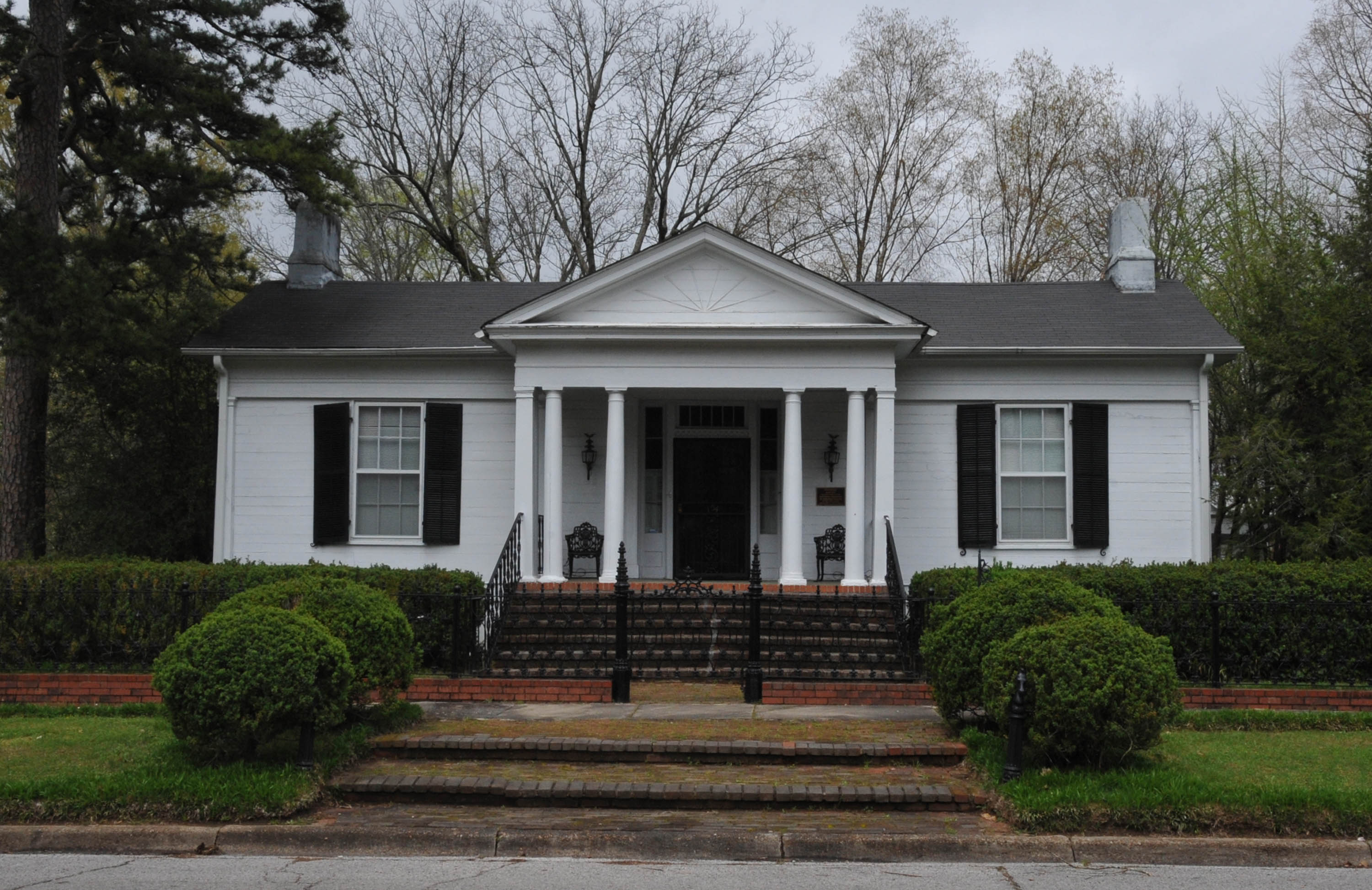 DUNVEGAN , AKA COCHRAN PLACE ; 1845 BUILT BY J.P. NORFLEET; part of the Southwest Holly Springs Historic District, Holly Springs, MS